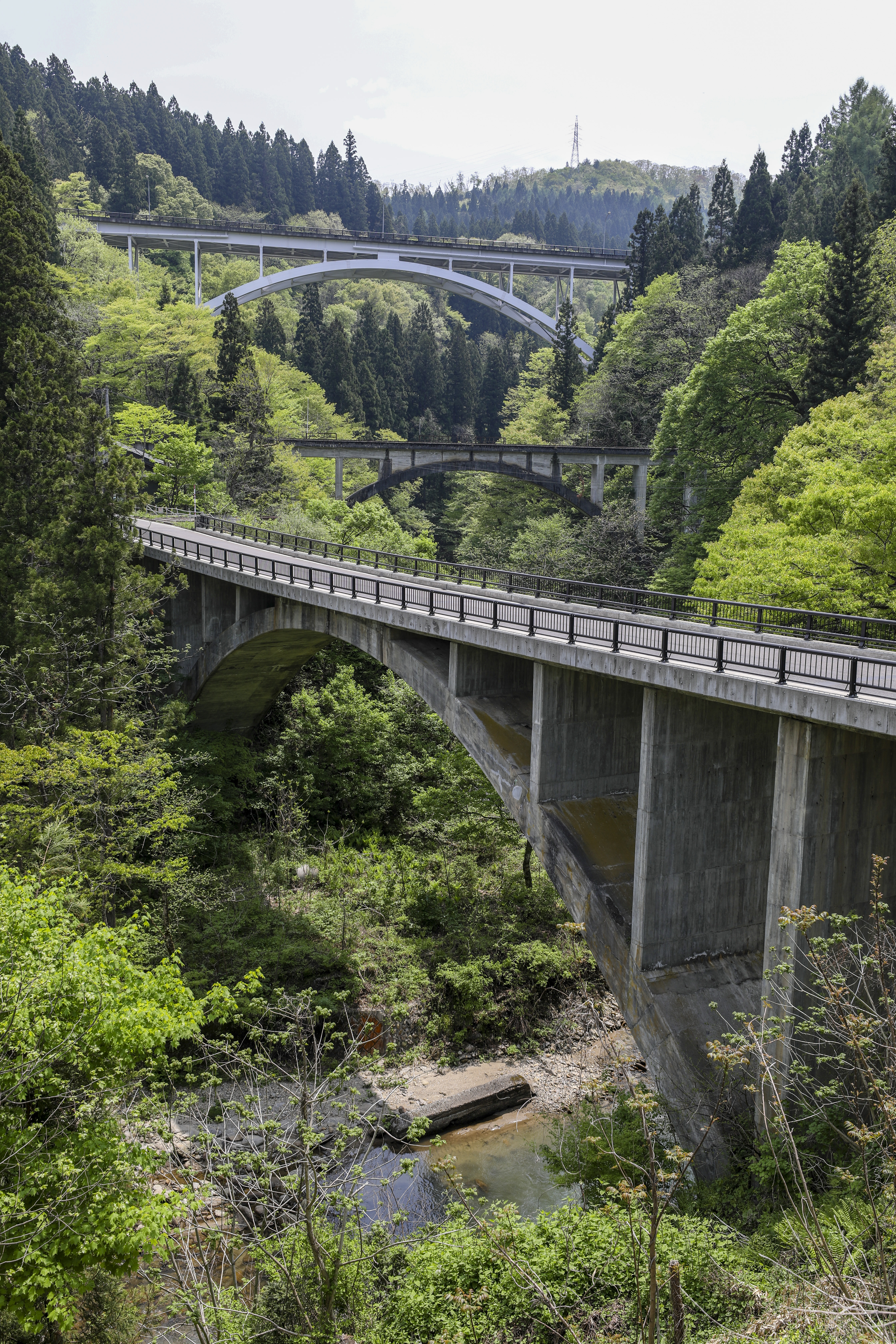 3 Bridges near Aizu-Miyashita Station in Fukushima prefecture, Japan